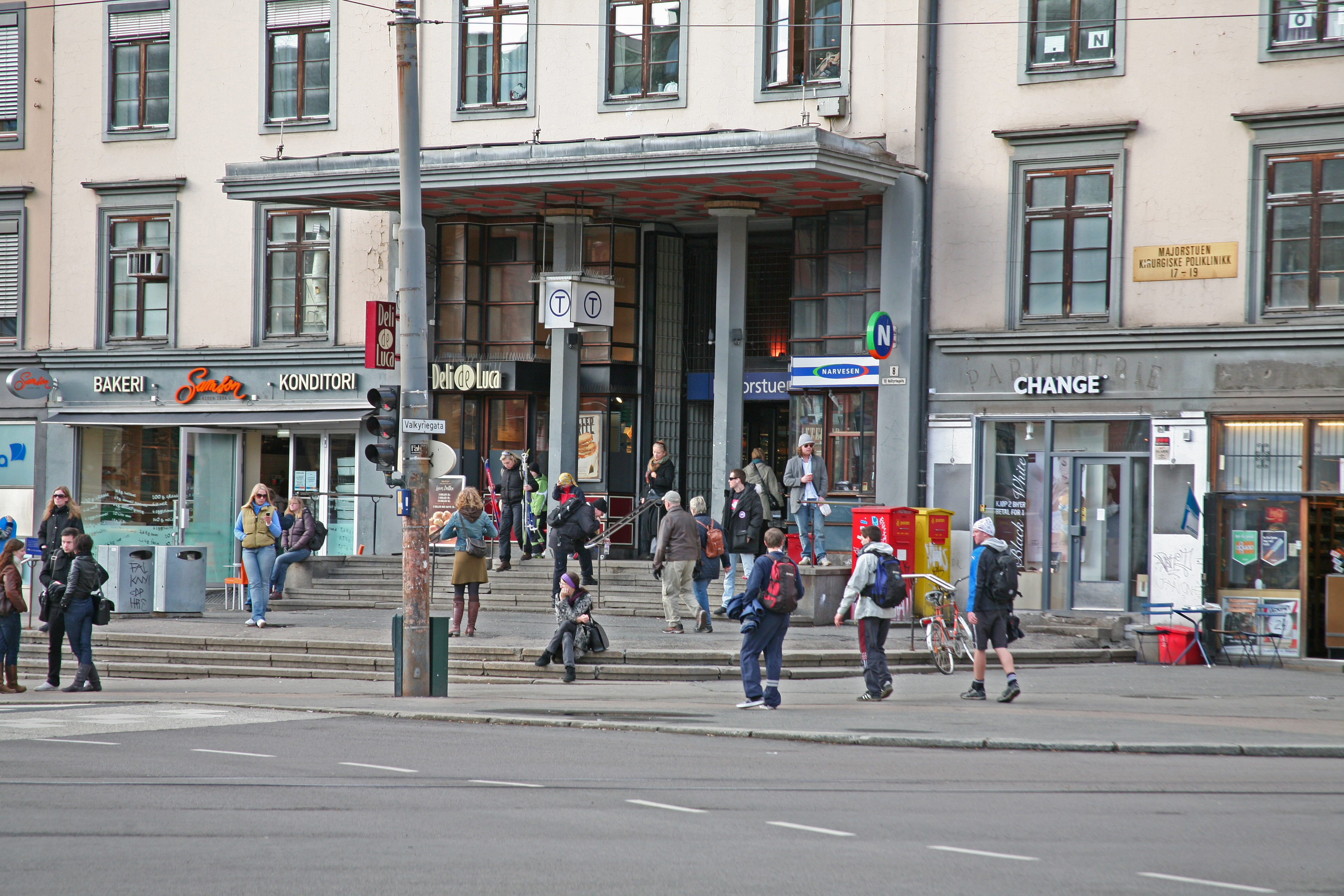 Picture of Majorstuen Station (Oslo - Norway)